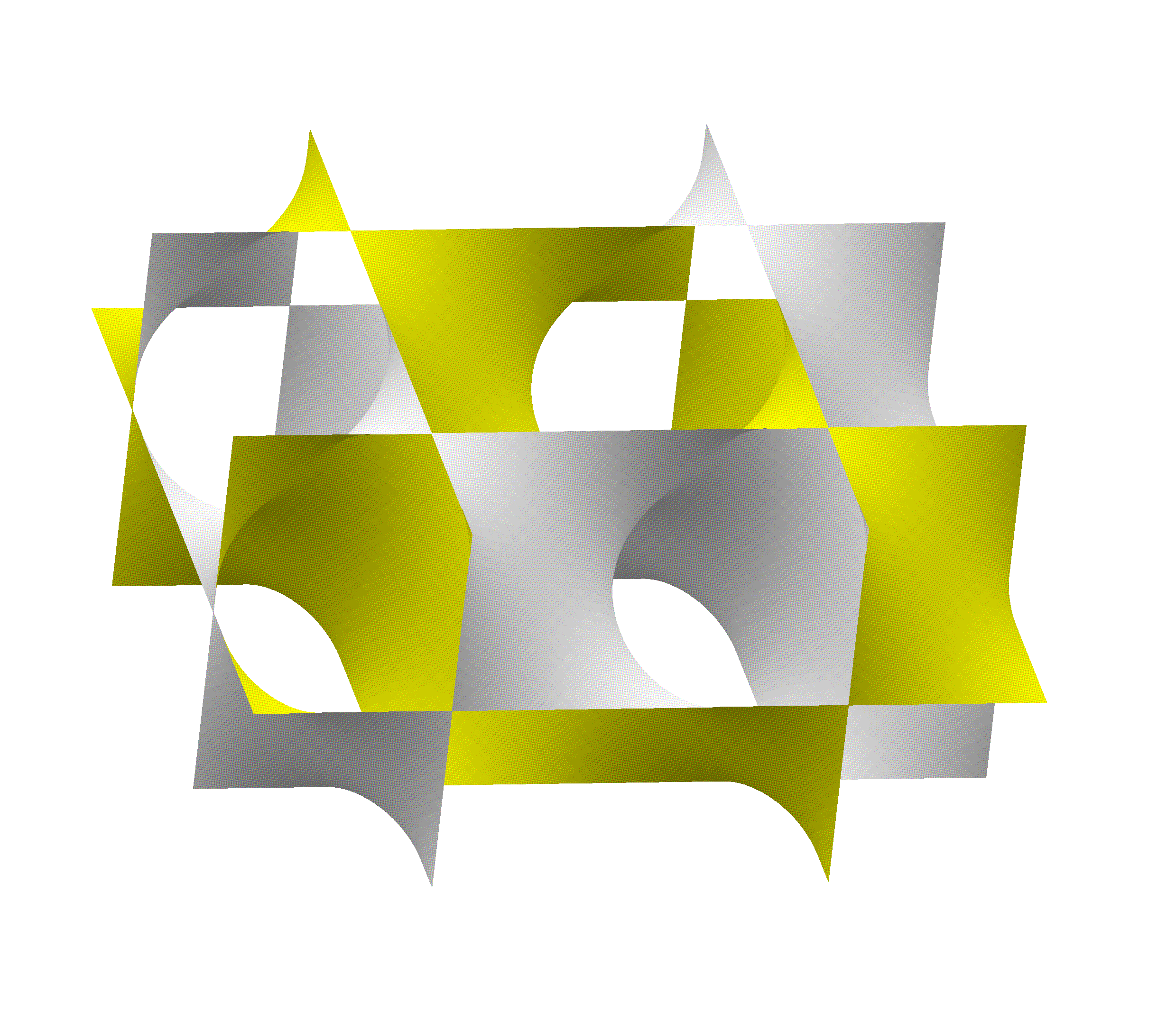 Approximation of the Schwarz D minimal surface generated using Ken Brakke's Surface Evolver program.